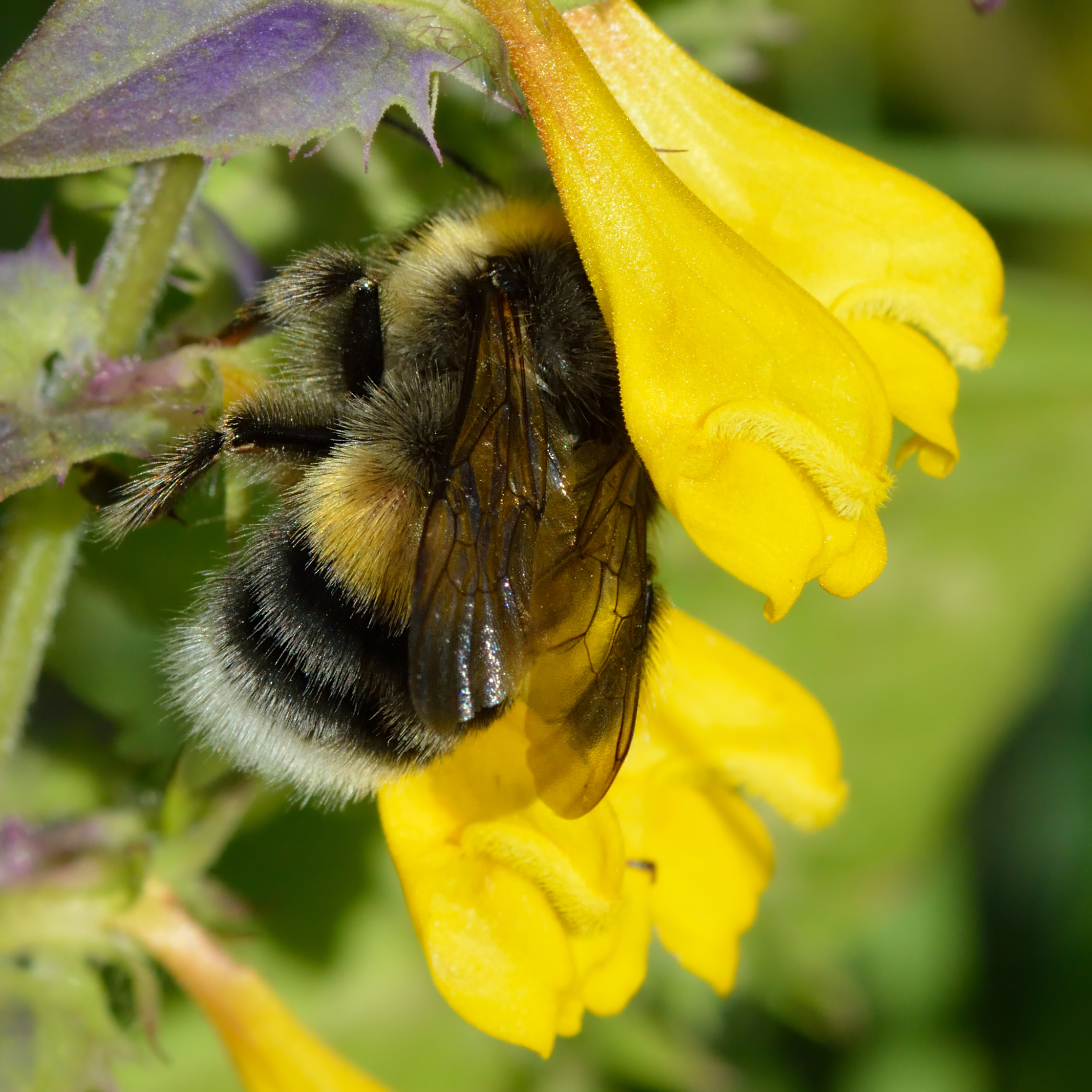 White-tailed bumblebee drone (Bombus lucorum) on the wood cow wheat (Melampyrum nemorosum) flower. Keila, Northwestern Estonia.